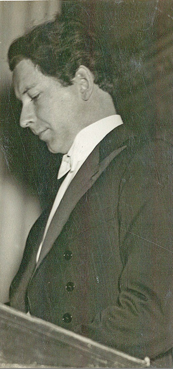 Norwegian physicist and meteorologist Einar Høiland (1907–1974)